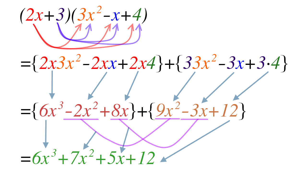 An image showing the expansion of two equation multiplied together.